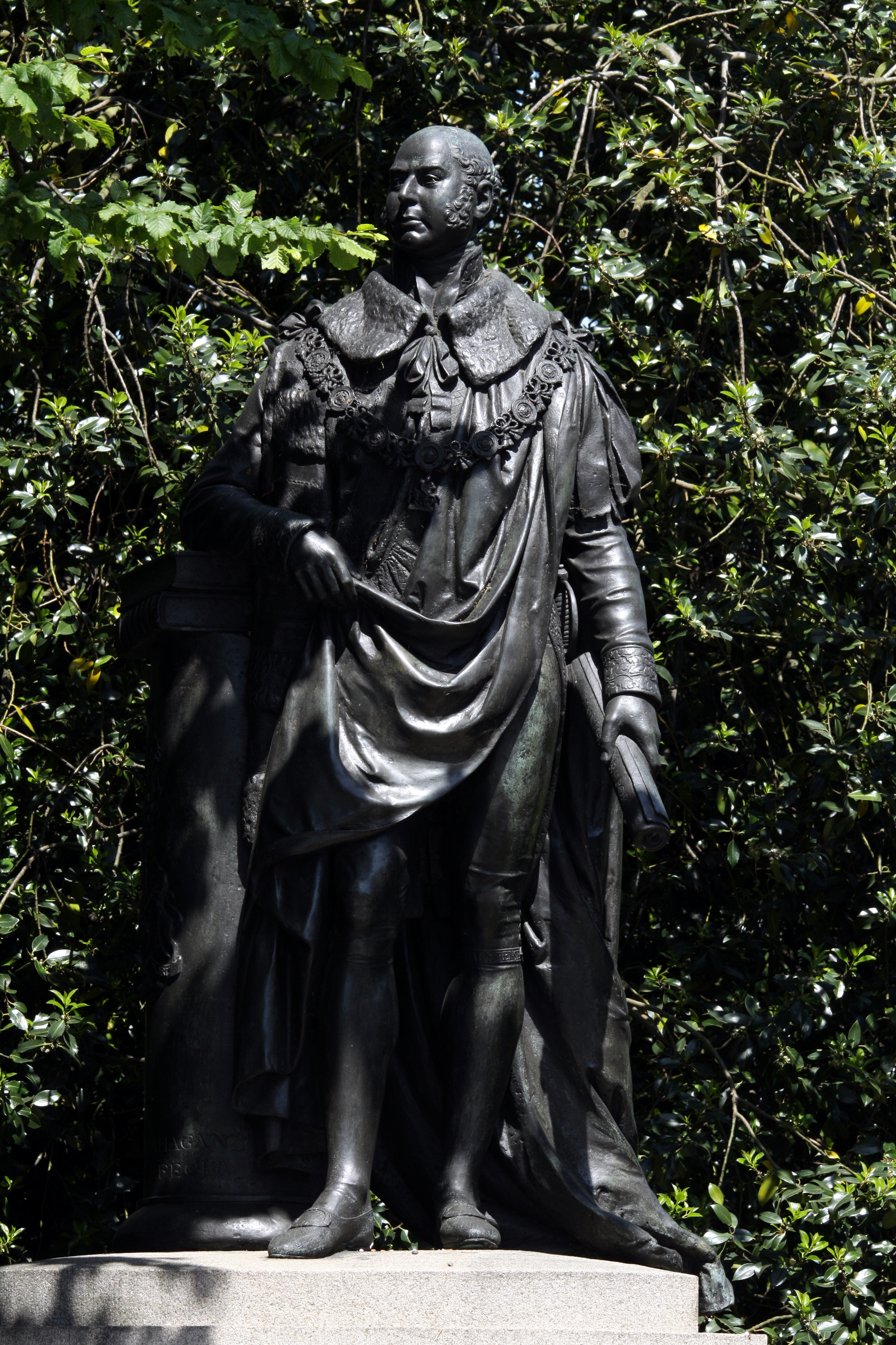 Statue of Prince Edward, Duke of Kent and Strathearn in the Park Crescent, the City of Westminster in London, England, Great Britain The making of this file was supported by Wikimedia UK.